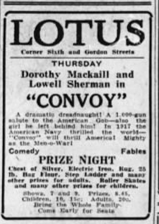 Lotus Theater advertisement for the American film Convoy (1927) - 8 Mar. 1928 Morning Call, Allentown PA